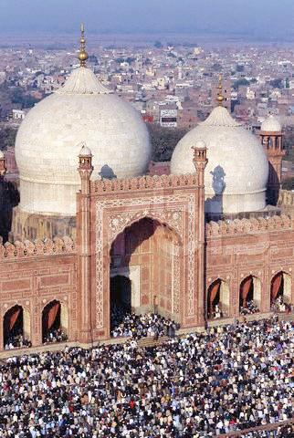 The Friday Prayers at the famous Badshahi Mosque in Lahore, Pakistan